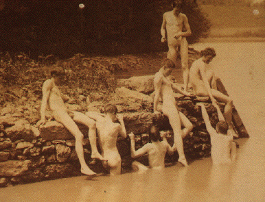 Thomas Eakins (1844-1916), Eakin's art students bathing, 1883. This picture was used for the painting The bathhole (see gallery below).